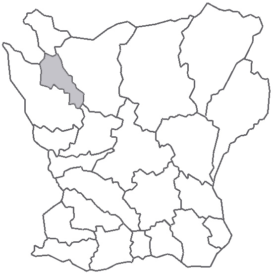 Map describing the location of Åsbo Southern Hundred in the province of Skåne, Sweden.